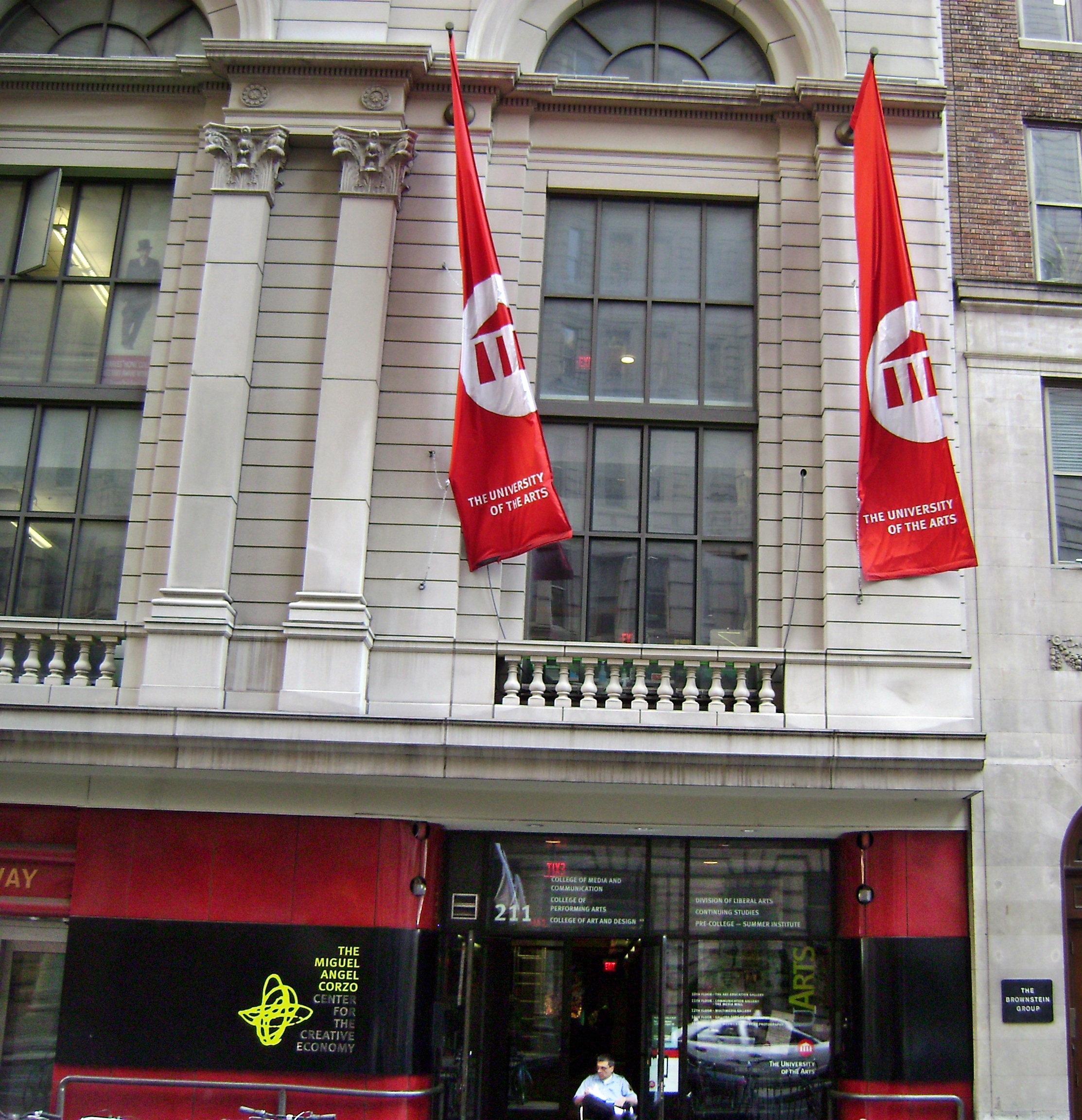 University of the Arts